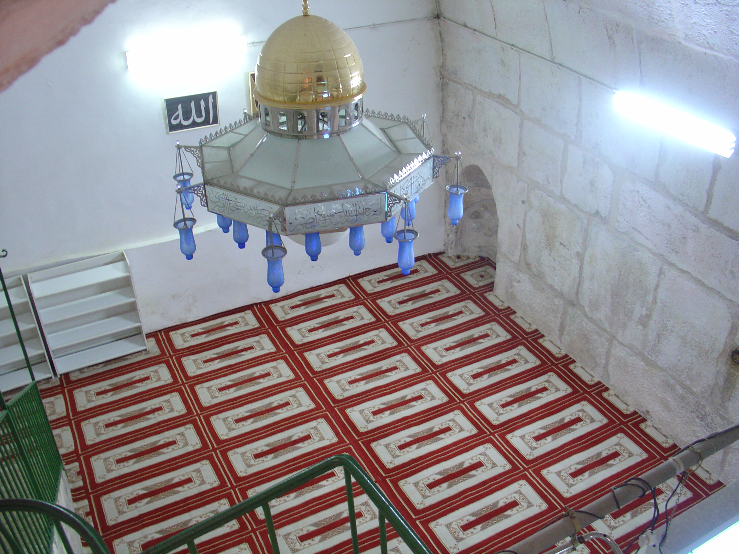 Al-Aqsa Mosque